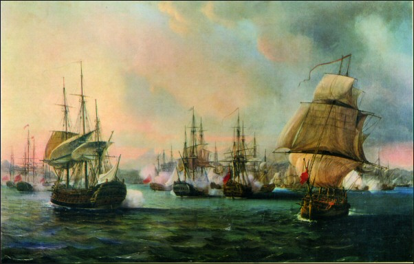 Battle of Porto Praya, 16 April 1781.